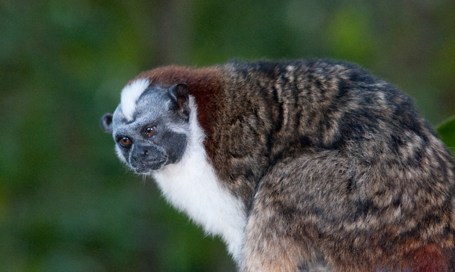 Geoffroy's Tamarin (Saguinus geoffroyi)